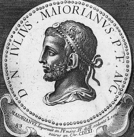 Portrait of Maiorianus Augustus, 1754, Hulton Archive.